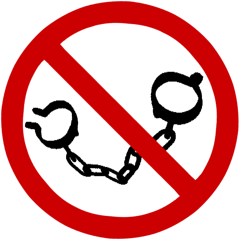 No slavery! Freedom. Liberty.